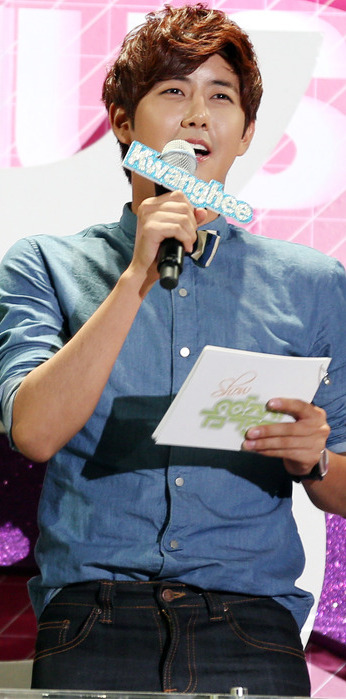 Kwanghee hosting Music Core, September 2012